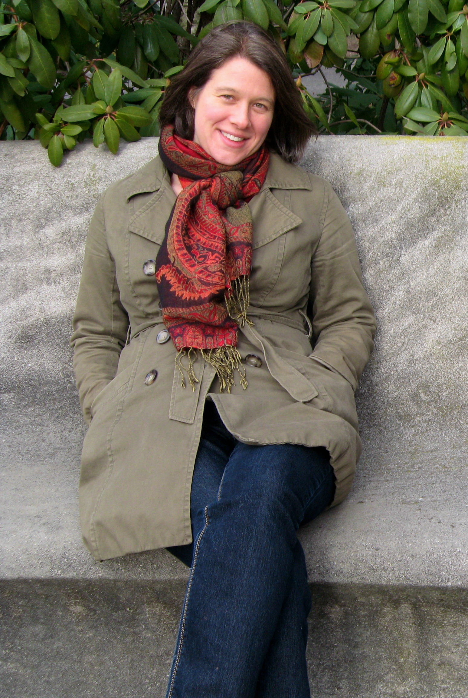 Laura Sims in 2012